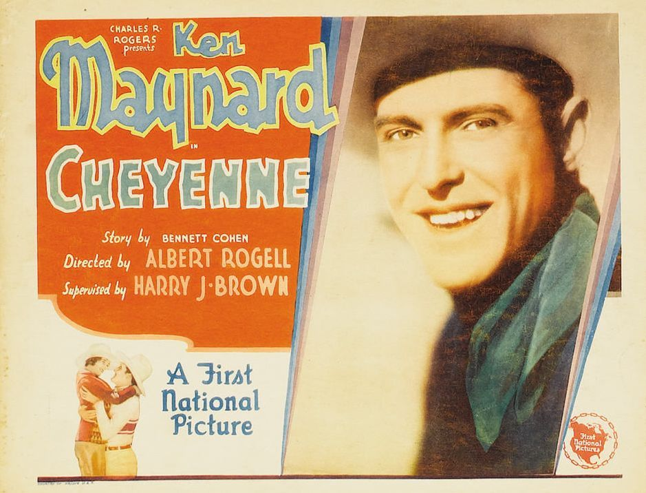 This is a lobby card for the 1929 American Western film Cheyenne.